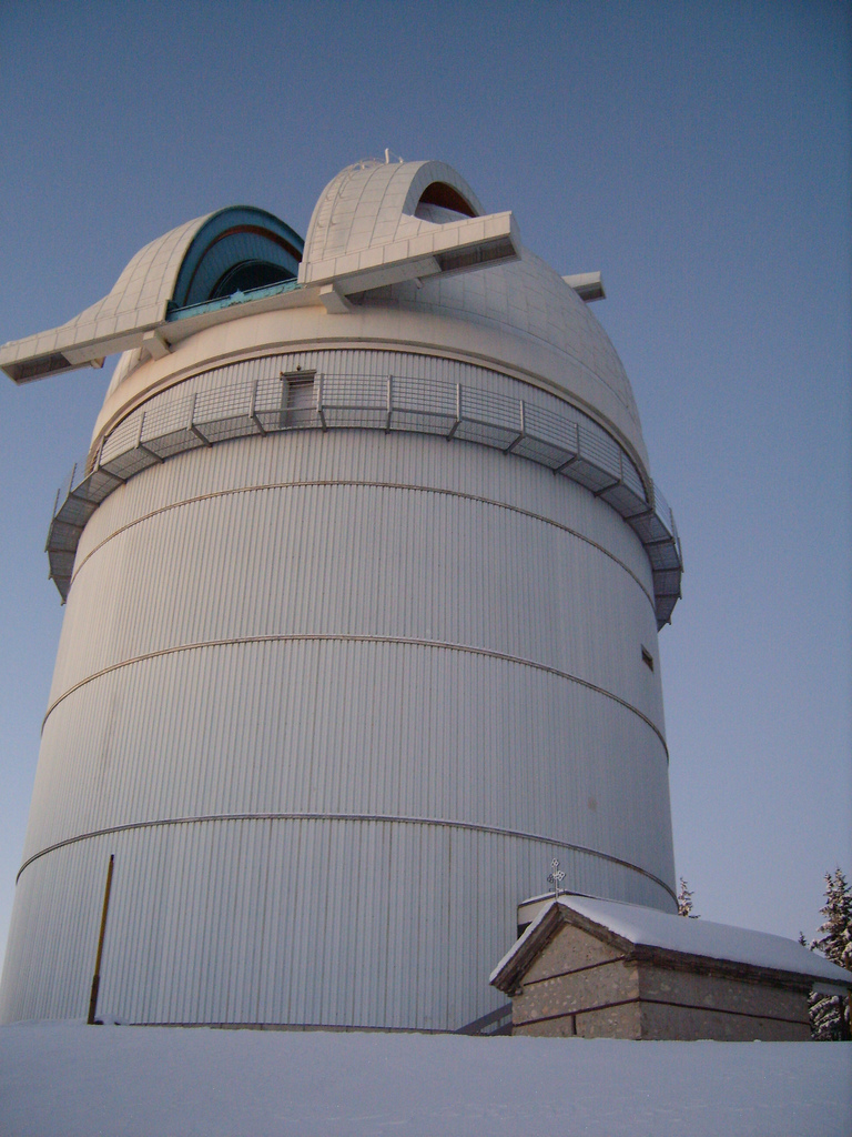 Large 2-meter telescope dome at Rozhen observatory